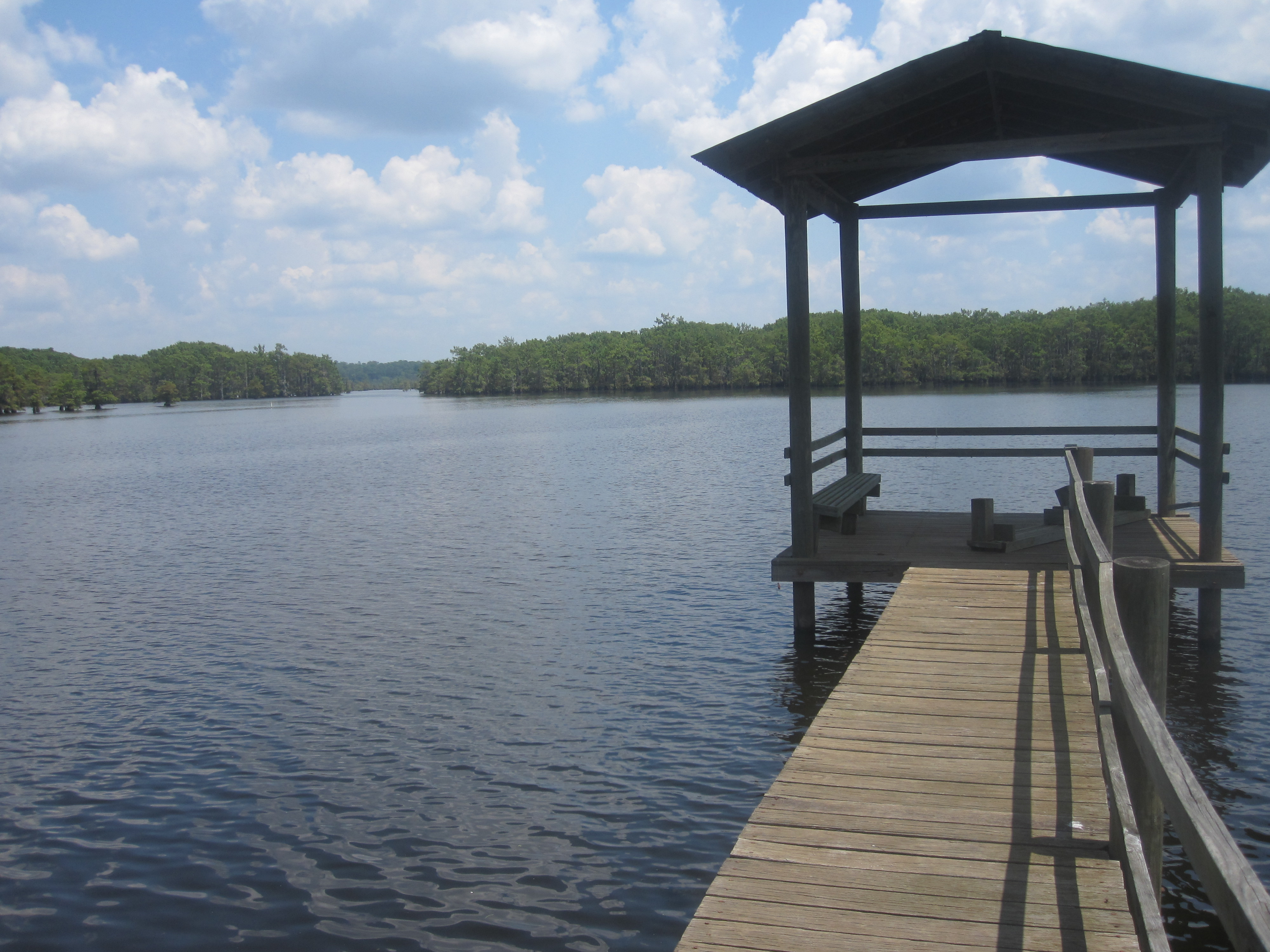 Pier on Black Lake at Bell's Camp near Campti, LA IMG_2070.JPG